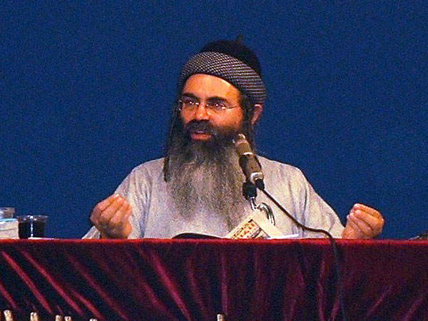 Amnon Yitzchak at a seminar on spiritual improvement and repentance in Acco